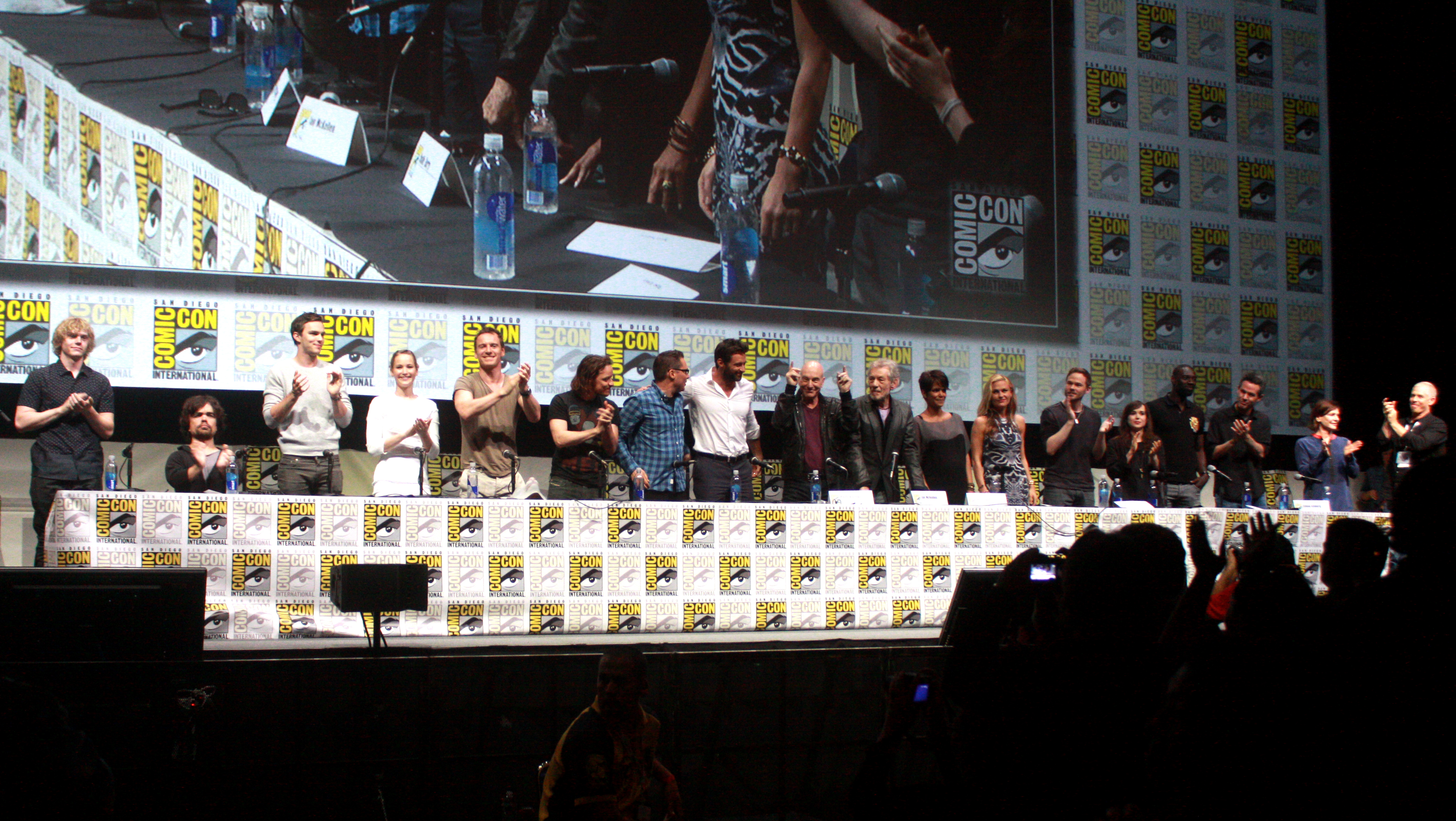 The cast of X-Men: Days of Future Past at the 2013 San Diego Comic Con International in San Diego, California.